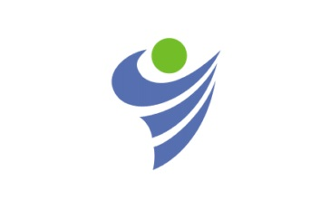 Flag of Yosano Kyoto